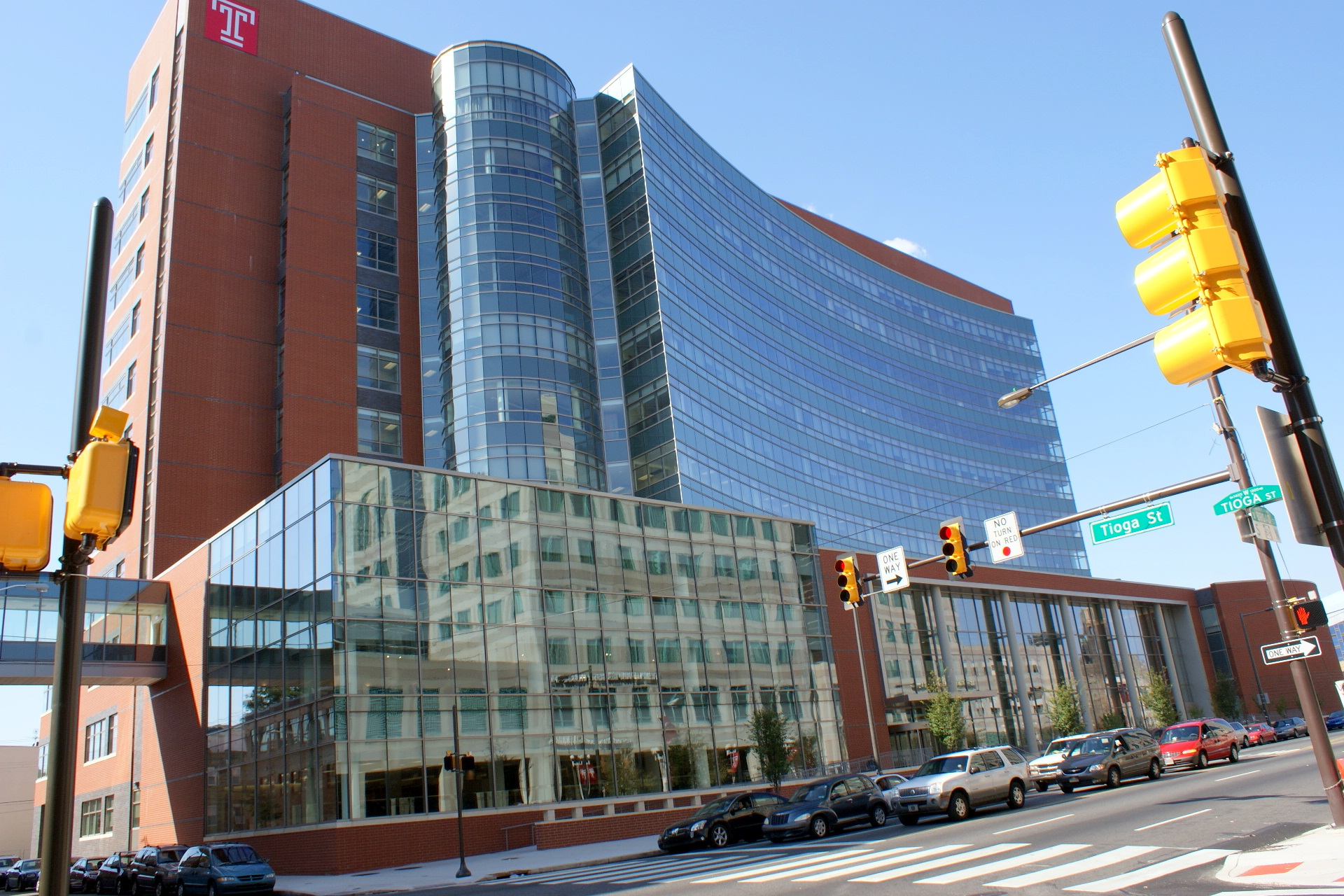 Temple University School of Medicine- New Medical Building, 3500 Broad Street